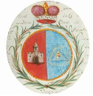 Coat of Arms of Kalvarijos city in 1791